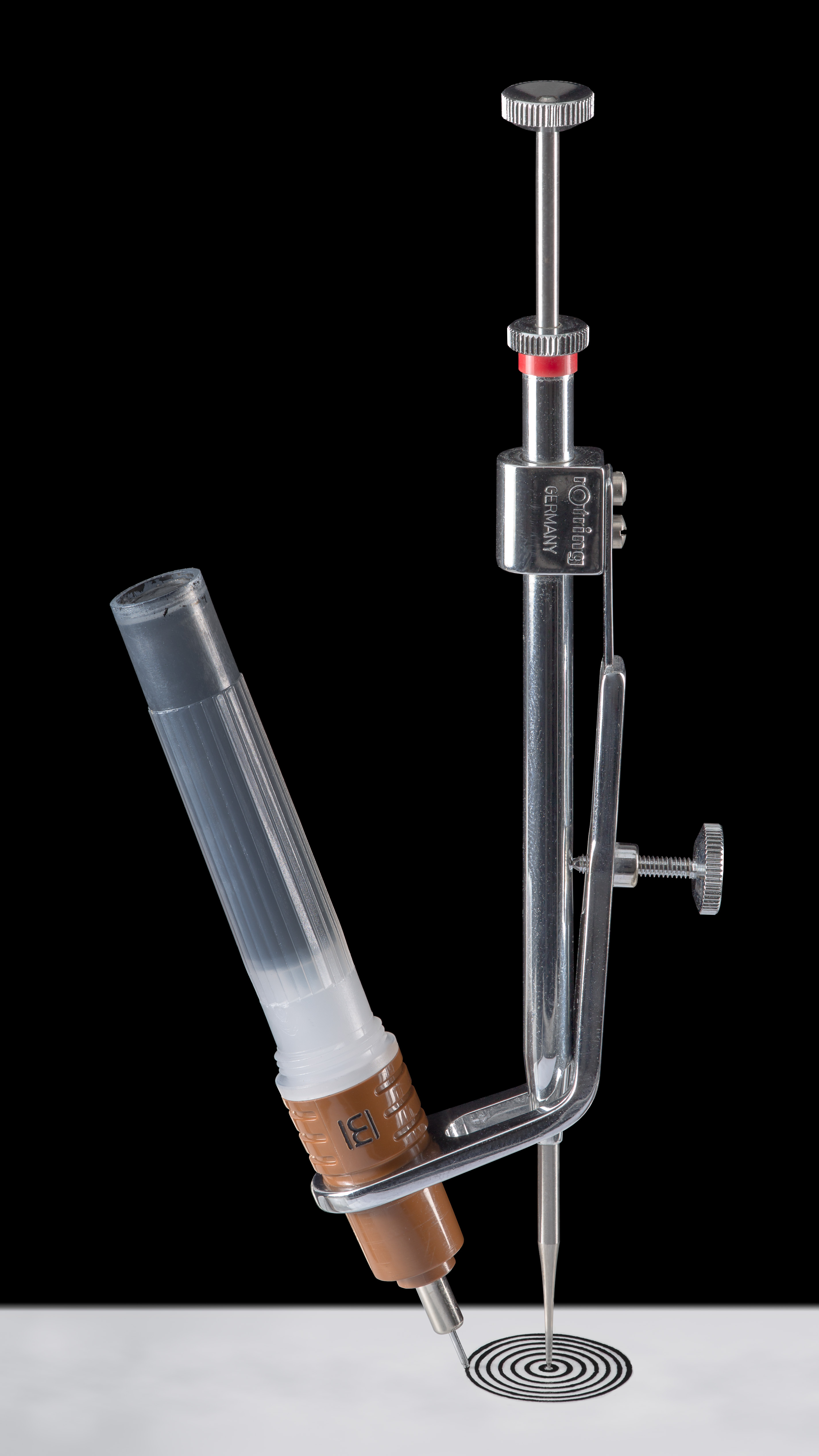 Rotring S0214750 bow compass with Rapidograph 0.5 mm technical pen drawing 1.5–15 mm diameter circles. The minimum circle radius is smaller than 1.5 mm—it's largely determined by the width of the pen tip. How this photo was made: The compass was standing on a acrylic plate, pressing down on the prepared circles on a piece of tracing paper. The mounted technical pen was empty to avoid a mess. The compass was held in place by pressing a plastic needle on the knob at the top, which was later removed. Black background achieved by a tent of black fabric. Lighting by diffused flashes left and right. Post-processing involved masking everything to make the BG pure black and recreating the satin surface to make it all look tidier.